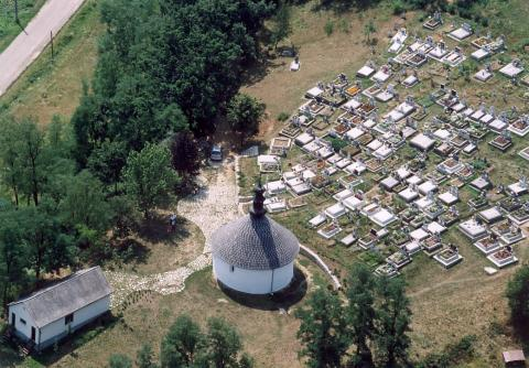 Kissikátor -temple, Hungary, aerialphotography